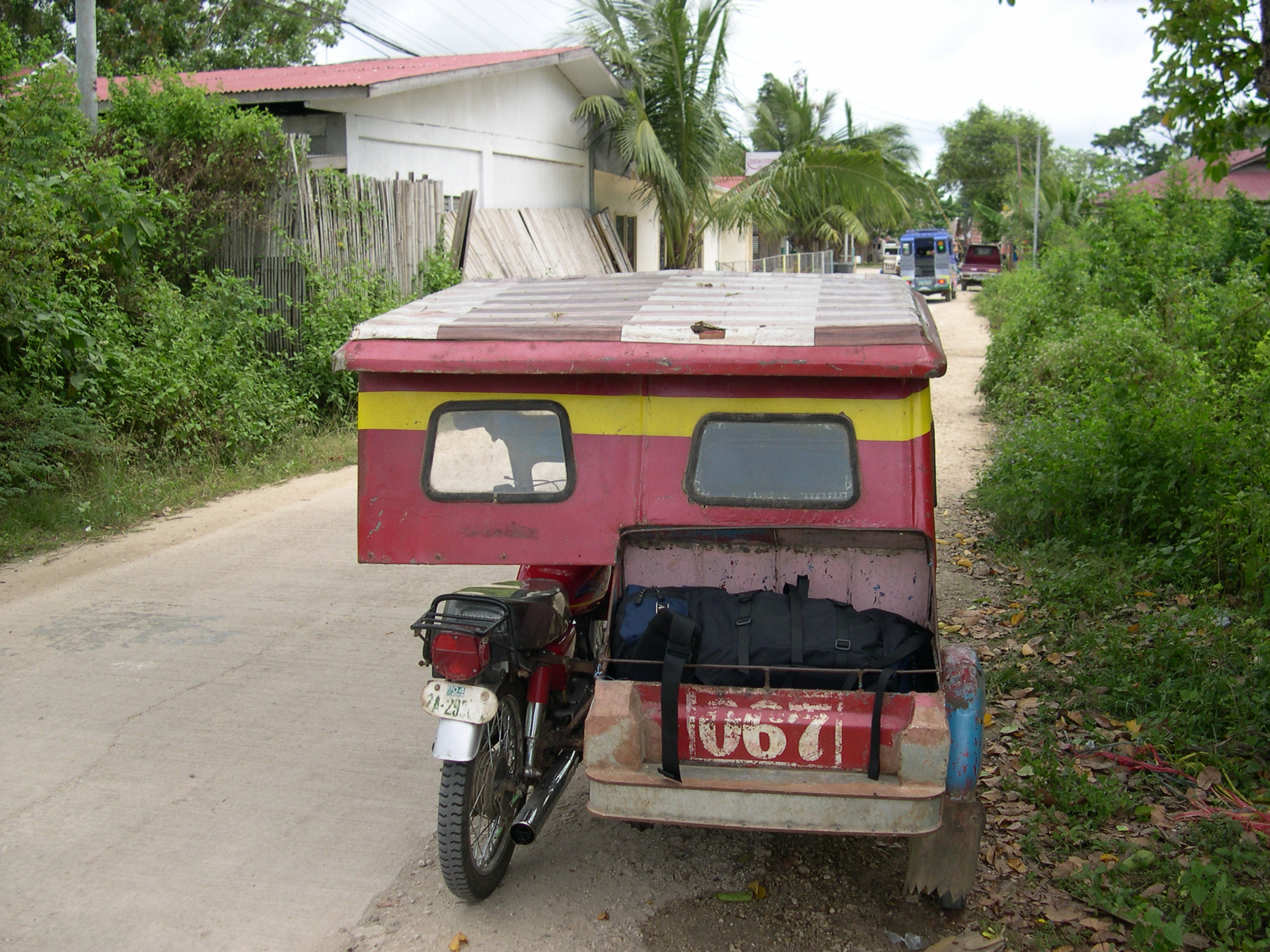 A Philippine tricycle on Panglao Island from the backside. Picture taken by Magalhães on March 27th 2006.